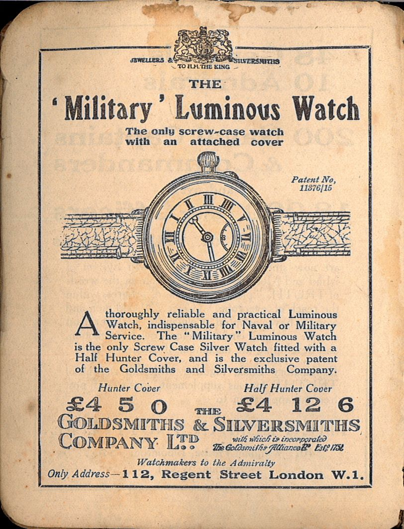 Frontispiece, watch advertisement (Signalling, 1918).jpg